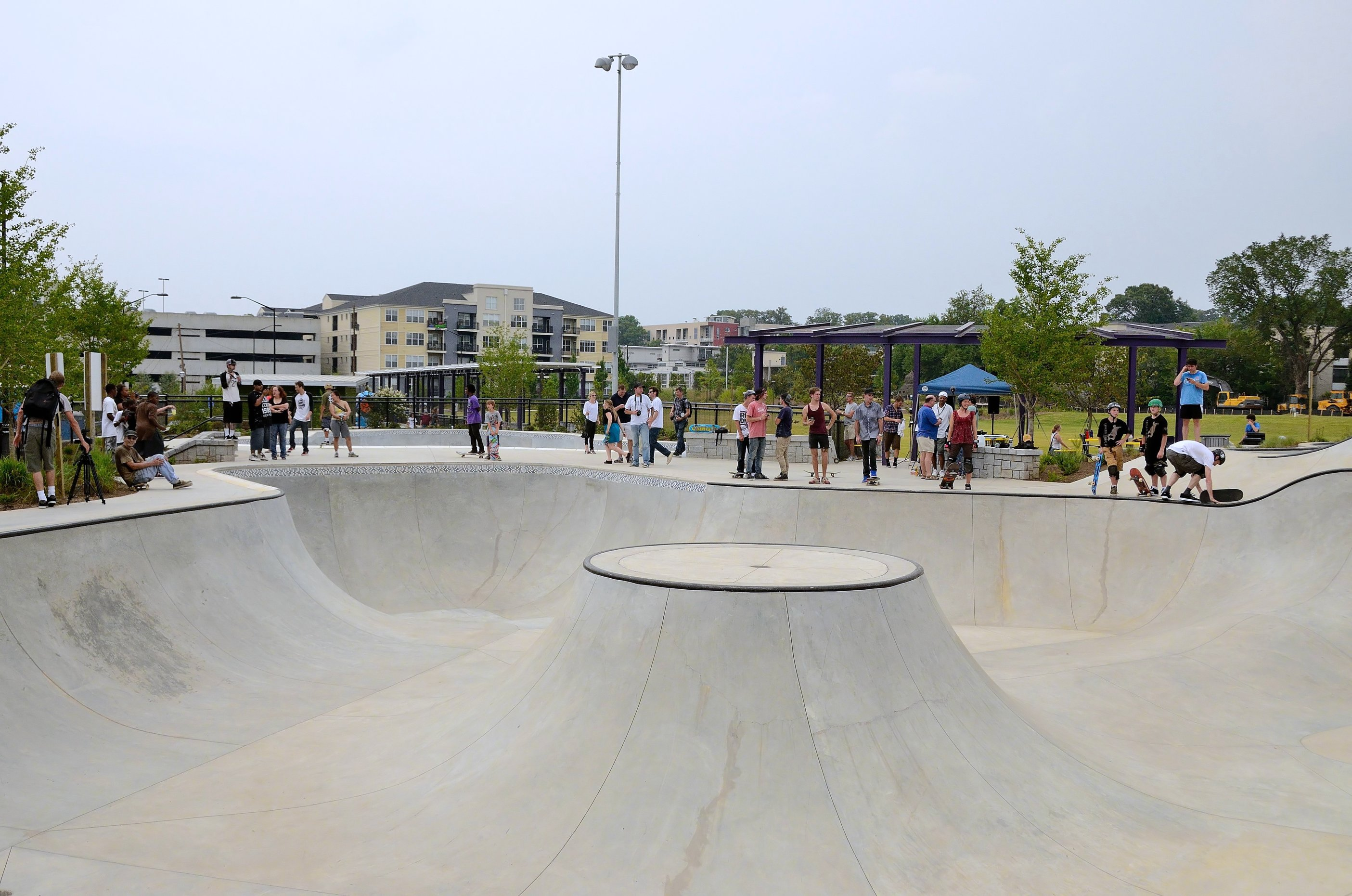 Tony Hawk shows up at Foundation Skate Park Opening